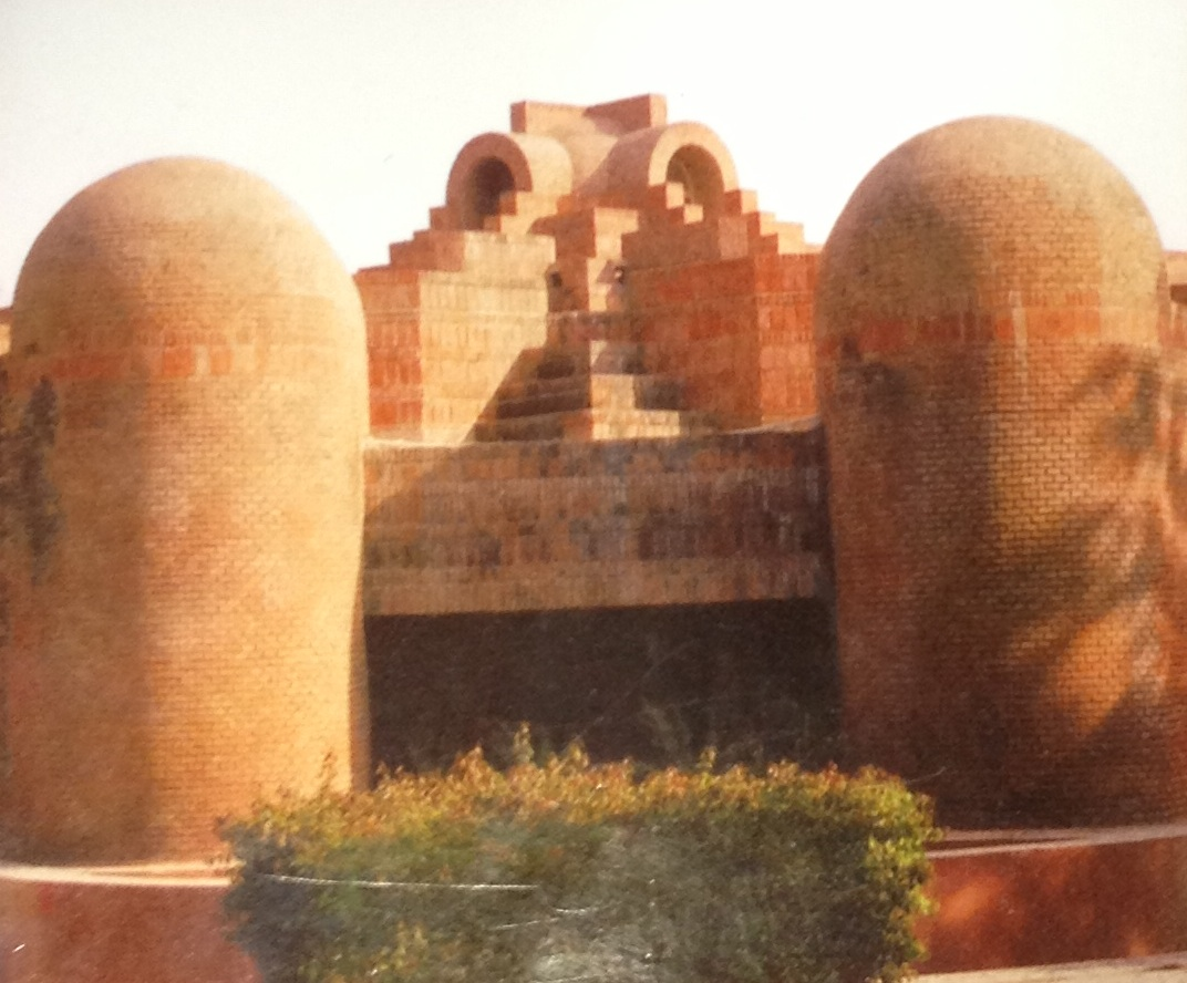 Photograph of fortress-like front face of the Embassy of Belgium in New Delhi